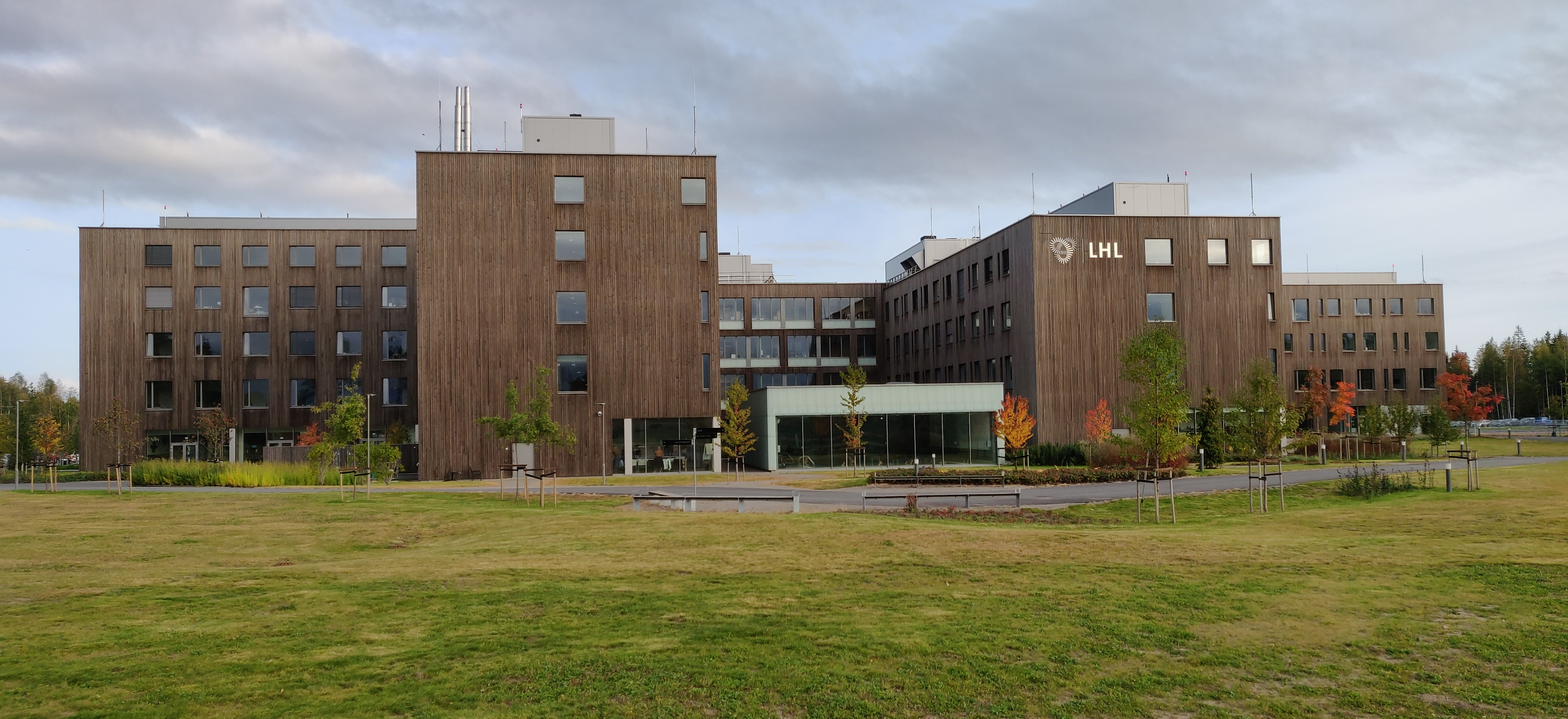 Gardermoen Campus which contains the hospital for the Norwegian organization "Landsforeningen for hjerte- og lungesyke" at Gardermoen in Ullensaker